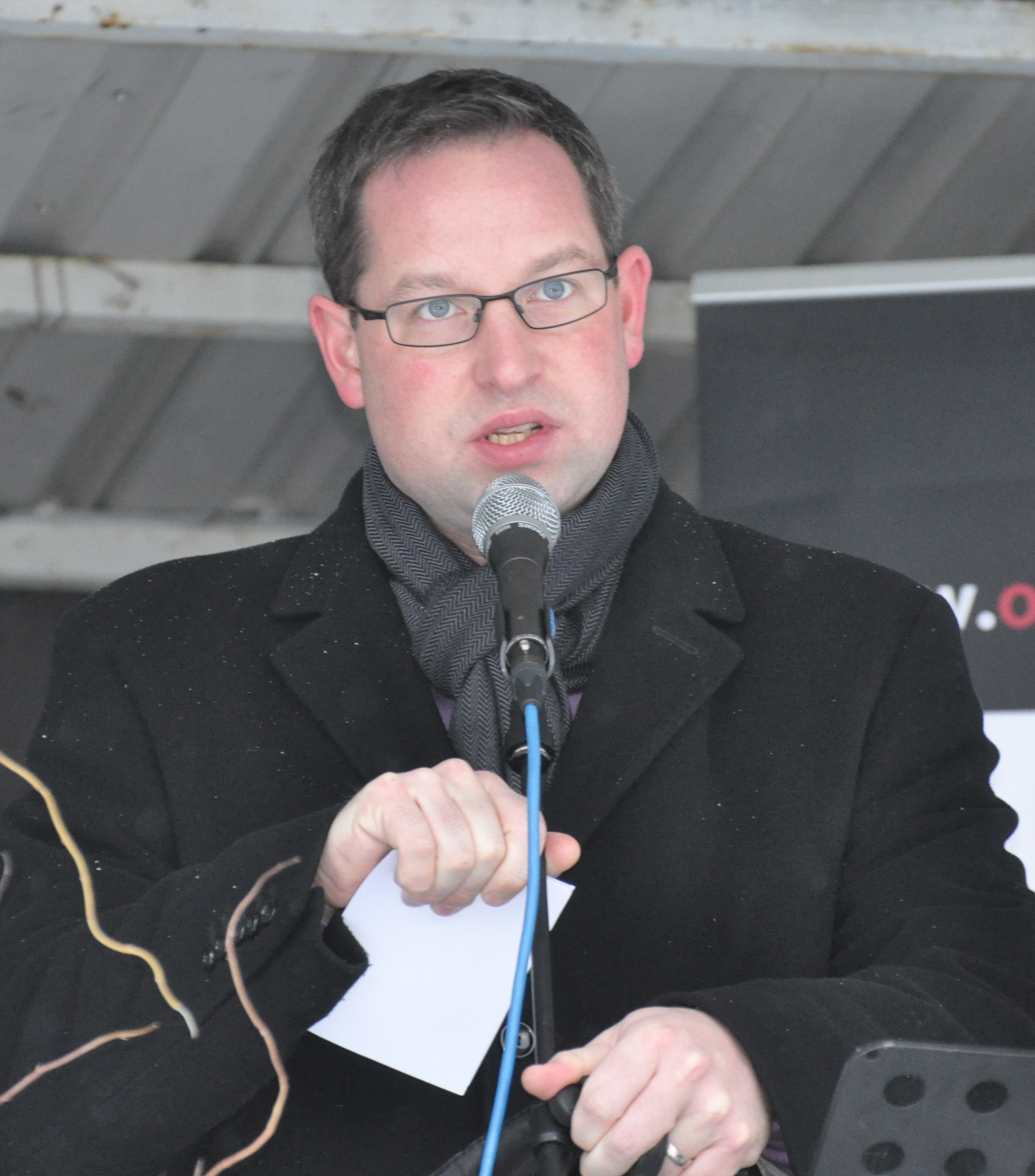 City manager of Turku Aleksi Randell, 2010.